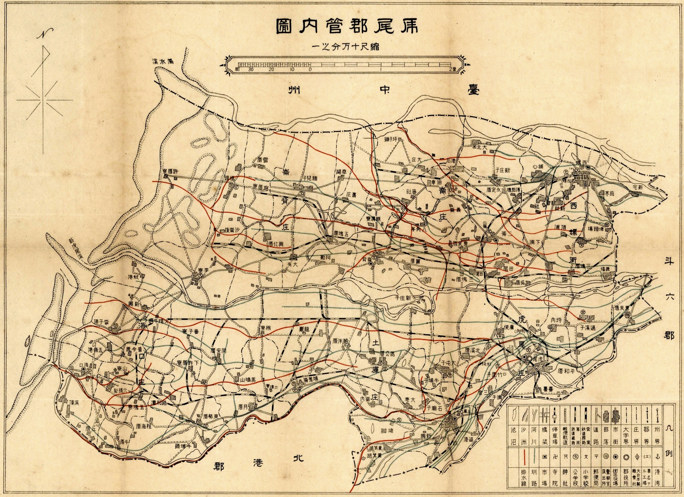 虎尾郡管內圖